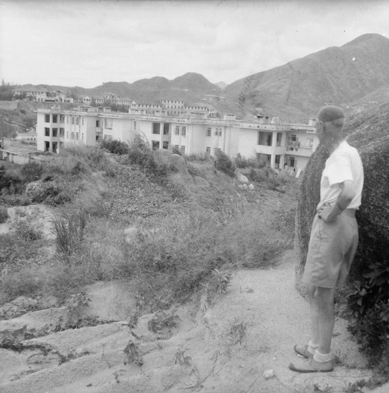 One of the former internees looks back at Stanley Camp where some 3,000 civilians were held by the Japanese.